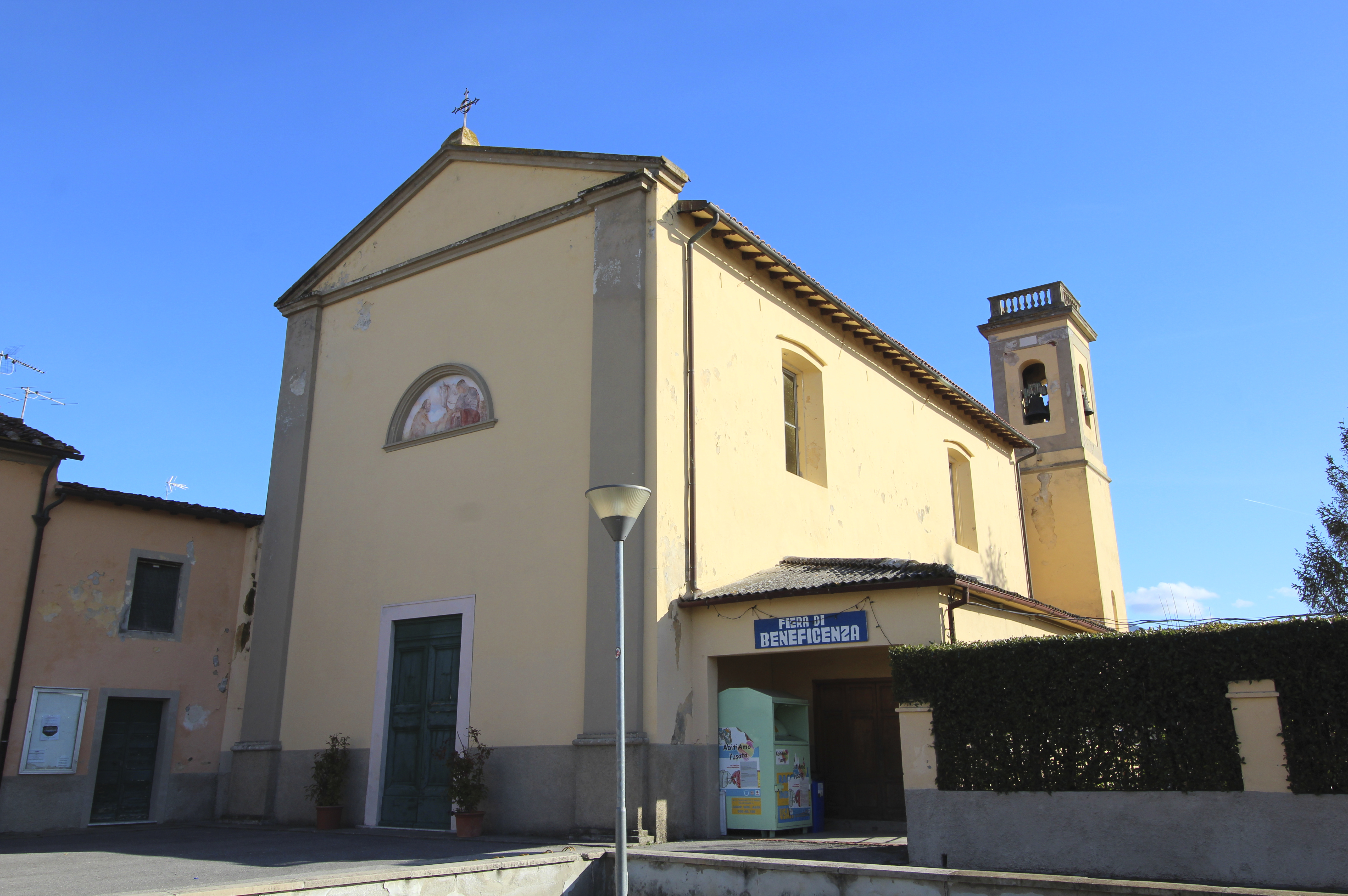 Church San Martino, San Martino a Ulmiano, hamlet of San Giuliano Terme, Province of Pisa, Tuscany, Italy